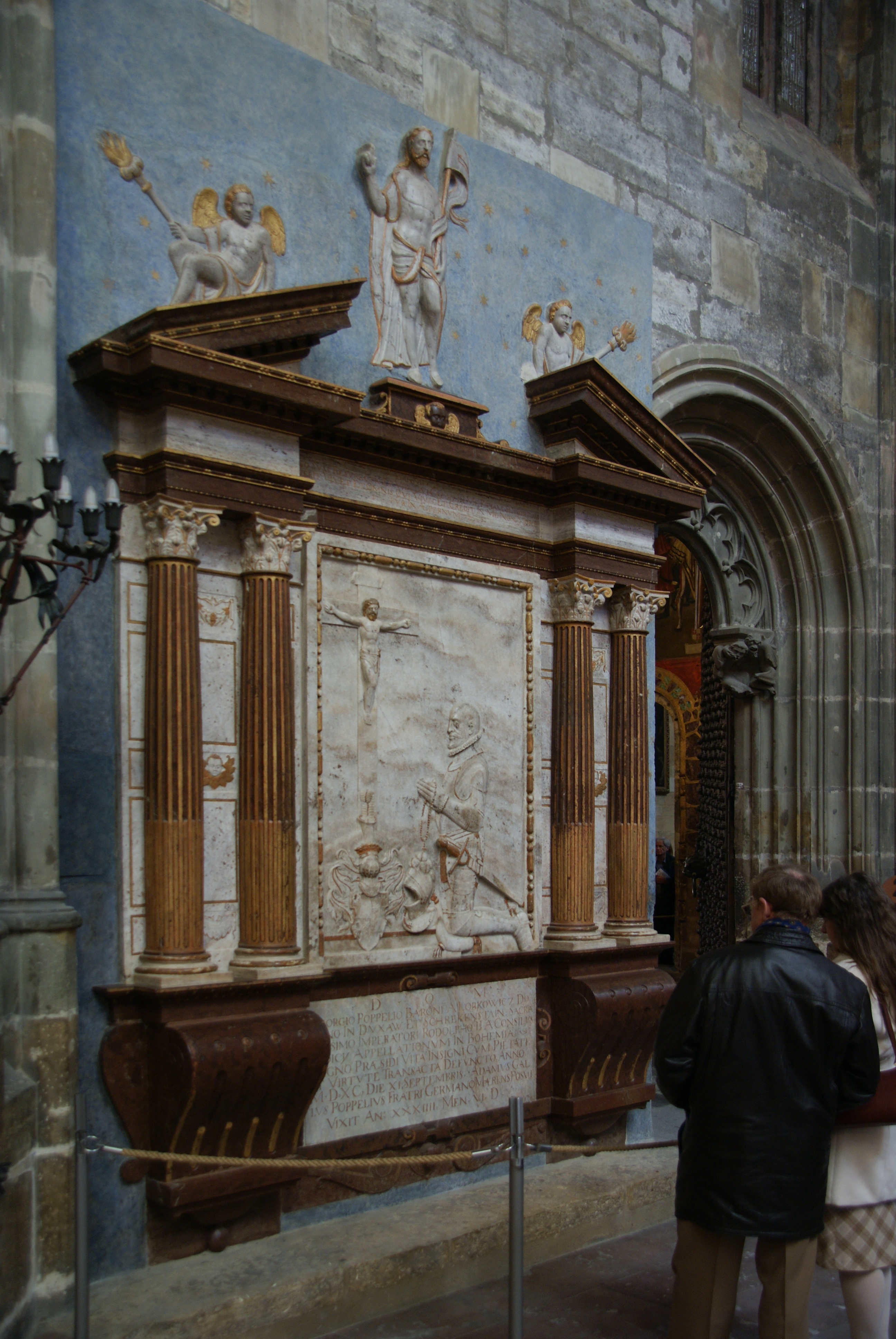 St. Vitus Cathedral (interior), Prague